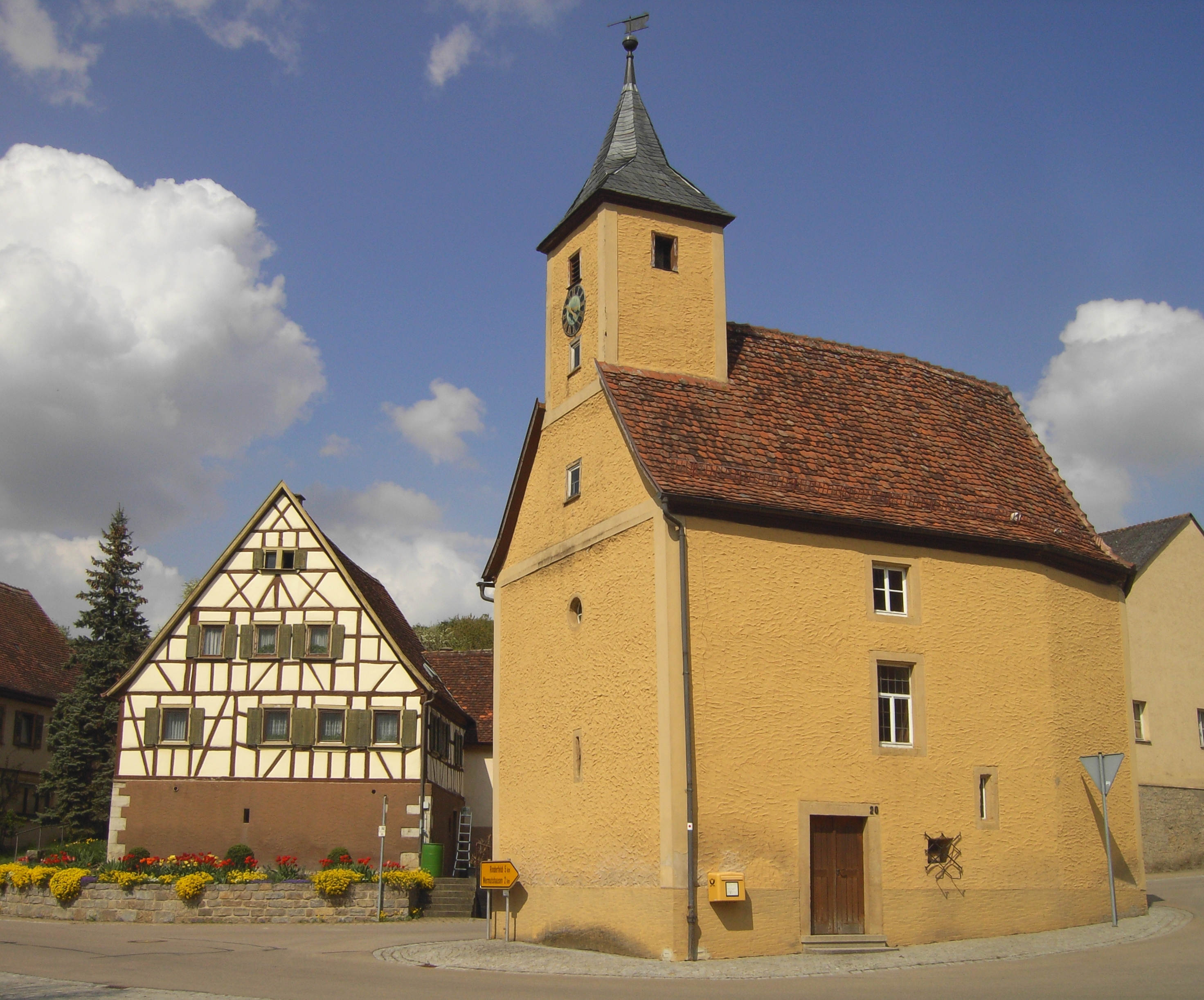 Kirche in Ebertsbronn